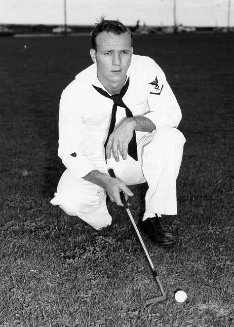 YN3 Arnold Palmer, 23, played in the North and South Amateur Golf Championship held at Pinehurst Country Club, Pinehurst, N.C., April 20, 1953, while on leave from his yeoman duties in the 9th District Auxiliary office.